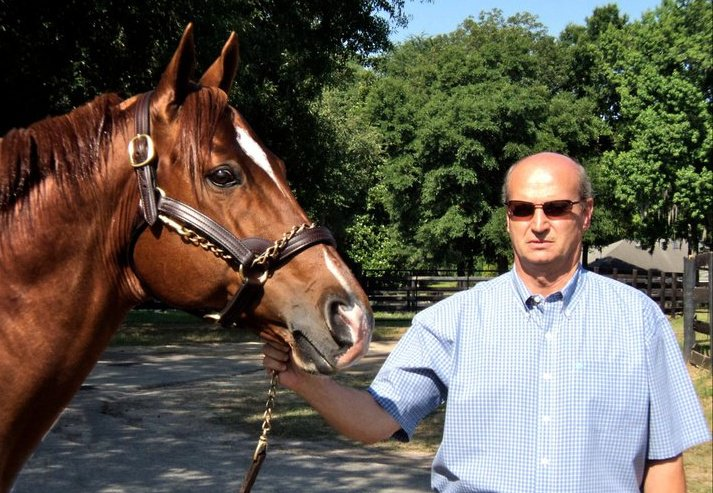 George DeBenedicty with leading Sire Leroidesanimaux at Stonewall Farm in Ocala, FL.